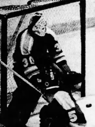 Canadian goaltender, Rick St Croix playing for the Flint Generals in April 1977.